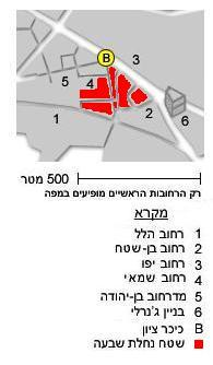 Map of Nachalat Shiv'a Neighborhood, Jerusalem : 1 Hillel Street 2 Ben Sira Street 3 Yafo Street 4 Shamai Street 5 Ben Yehuda Pedestrian Street 6 Generali building B Tzion Square